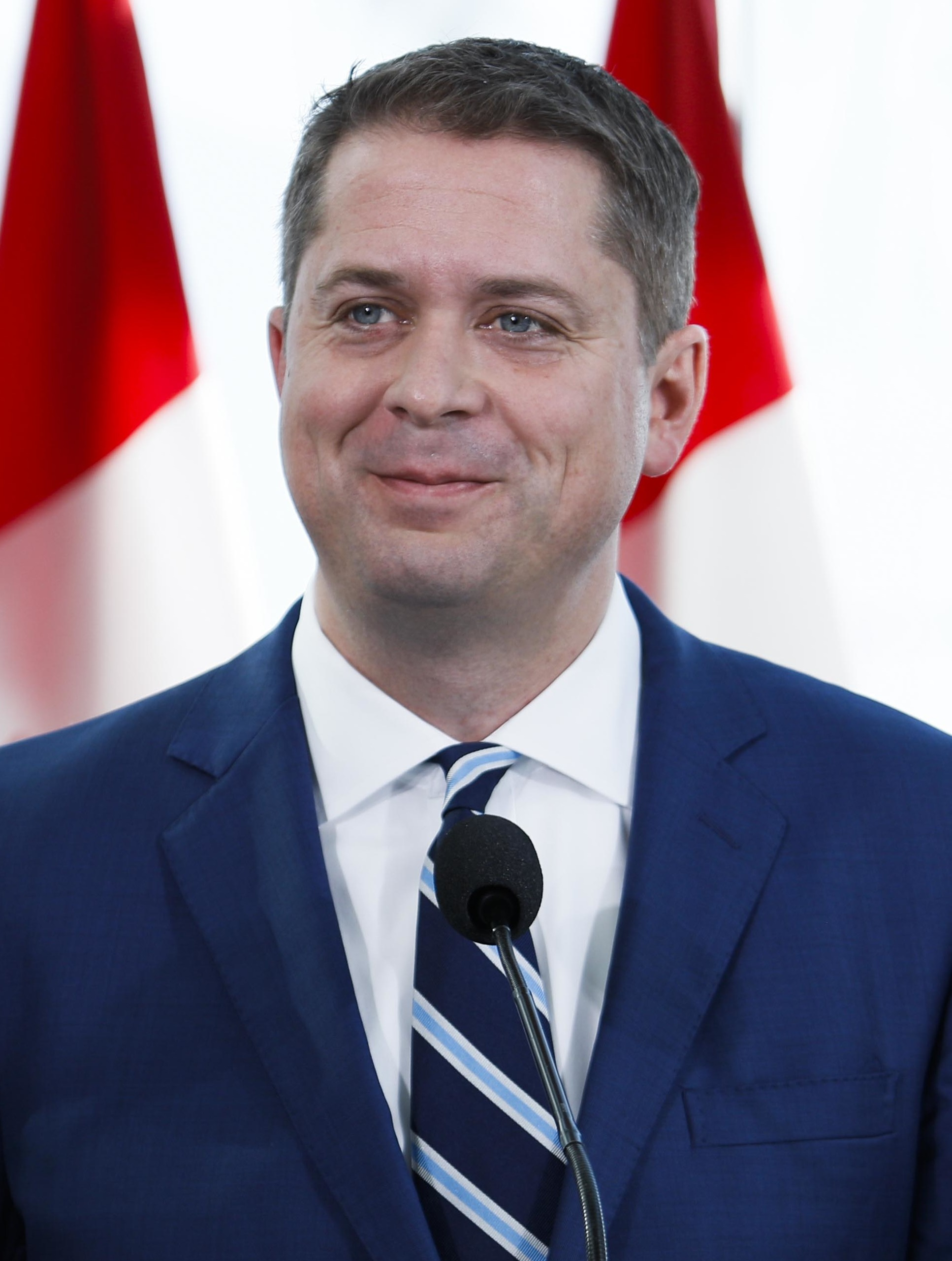 I will refocus foreign aid dollars to where they’re needed most. I will cut aid to wealthy countries like Russia, Italy, and China, to put money back in the pockets of Canadians. It’s time for you to get ahead.